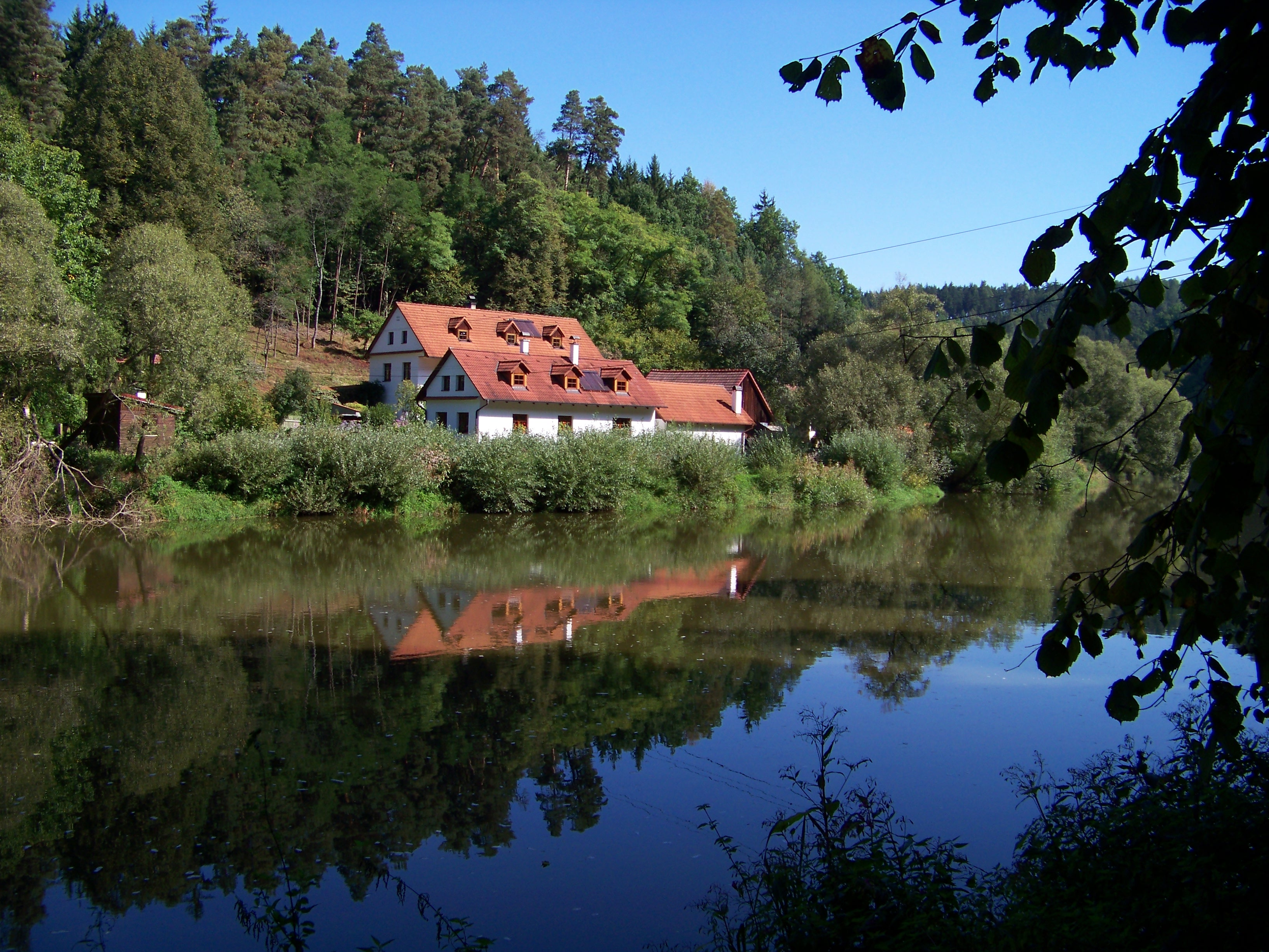 Řepeč-Kášovice, Tábor District, South Bohemian Region, the Czech Republic. U Rybáka houses, No. 10 and 12. - OpenStreetMap(Info)